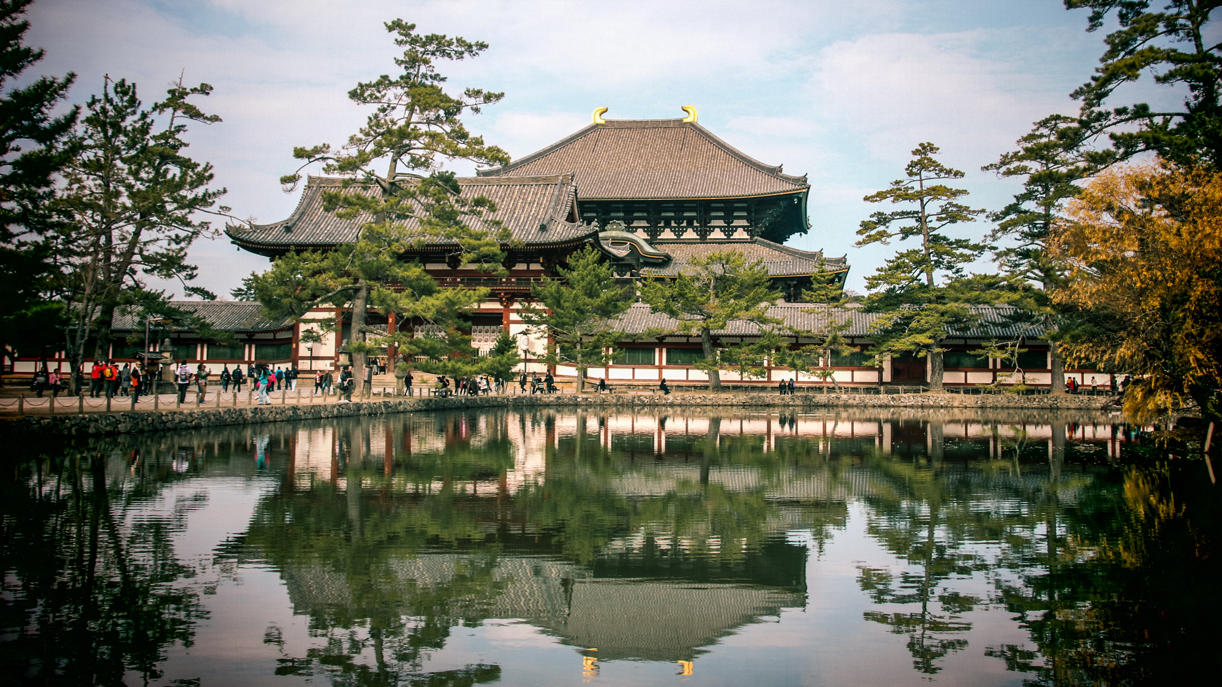 Tōdai-ji, Nara, Japan.